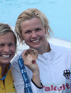 crop of Britta Steffen with 100 freestyle gold medal at the 2009 World Championships